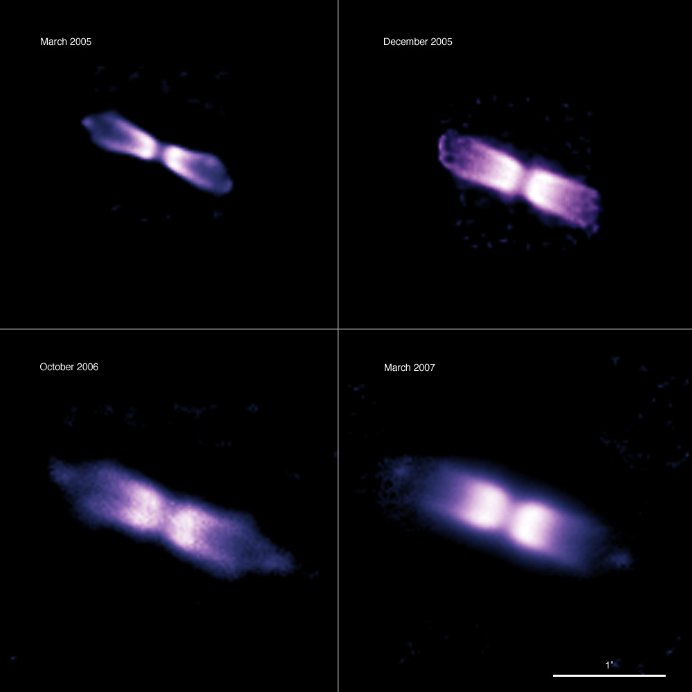 Using the NACO adaptive optics instrument on ESO’s Very Large Telescope and its ability to obtain images as sharp as if taken from space, astronomers have made the first time-lapse movie of a bipolar shell ejected by a “vampire star”, which underwent an outburst after gulping down part of its companion’s matter. This enabled them to determine the distance and intrinsic brightness of the object. It appears that this system is a prime candidate to be one of the long-sought progenitors of the exploding stars known as Type Ia supernovae, critical for the study of dark energy. The images of V445 Puppis cover a time span of two years. The images unambiguously show a bipolar shell, initially with a very narrow waist, with lobes on each side. Two knots are also seen at either extreme end of the shell, which appear to move at about 30 million kilometres per hour. The shell — unlike any previously observed for a nova — is itself moving at about 24 million kilometres per hour. A thick disc of dust, which must have been produced during the last outburst, obscures the central couple of stars.